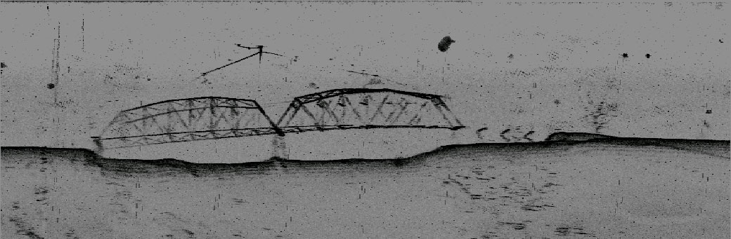 Wyse's Ferry Bridge on the bottom of Lake Murray, South Carolina seen on sonar imagery from the Blue Heron fishing vessel in 2005.